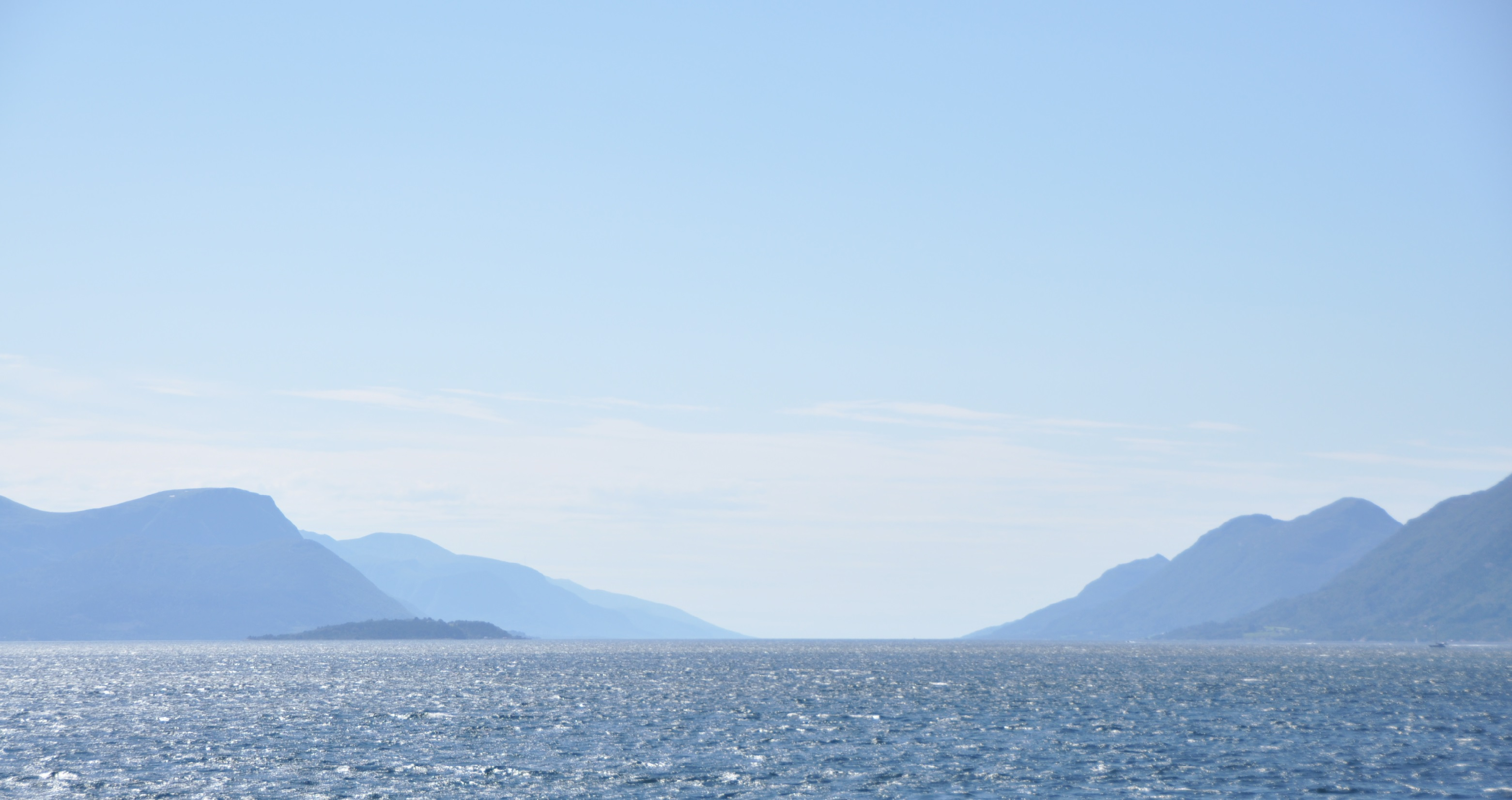 Midfjorden and Tautra seen from the Ferry to Molde